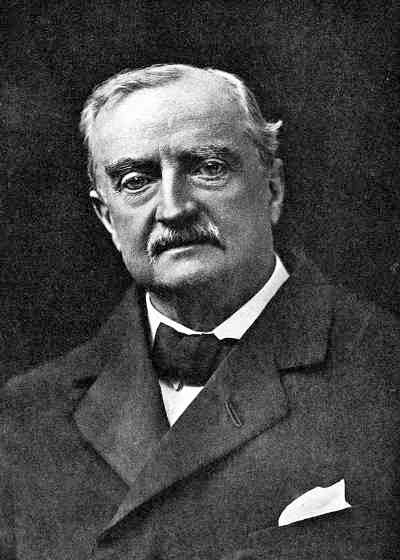 Image of John Redmond an historically significant Irish political figure. Leader of the Irish Parliamentary Party from 1900 until his death in March 1918.